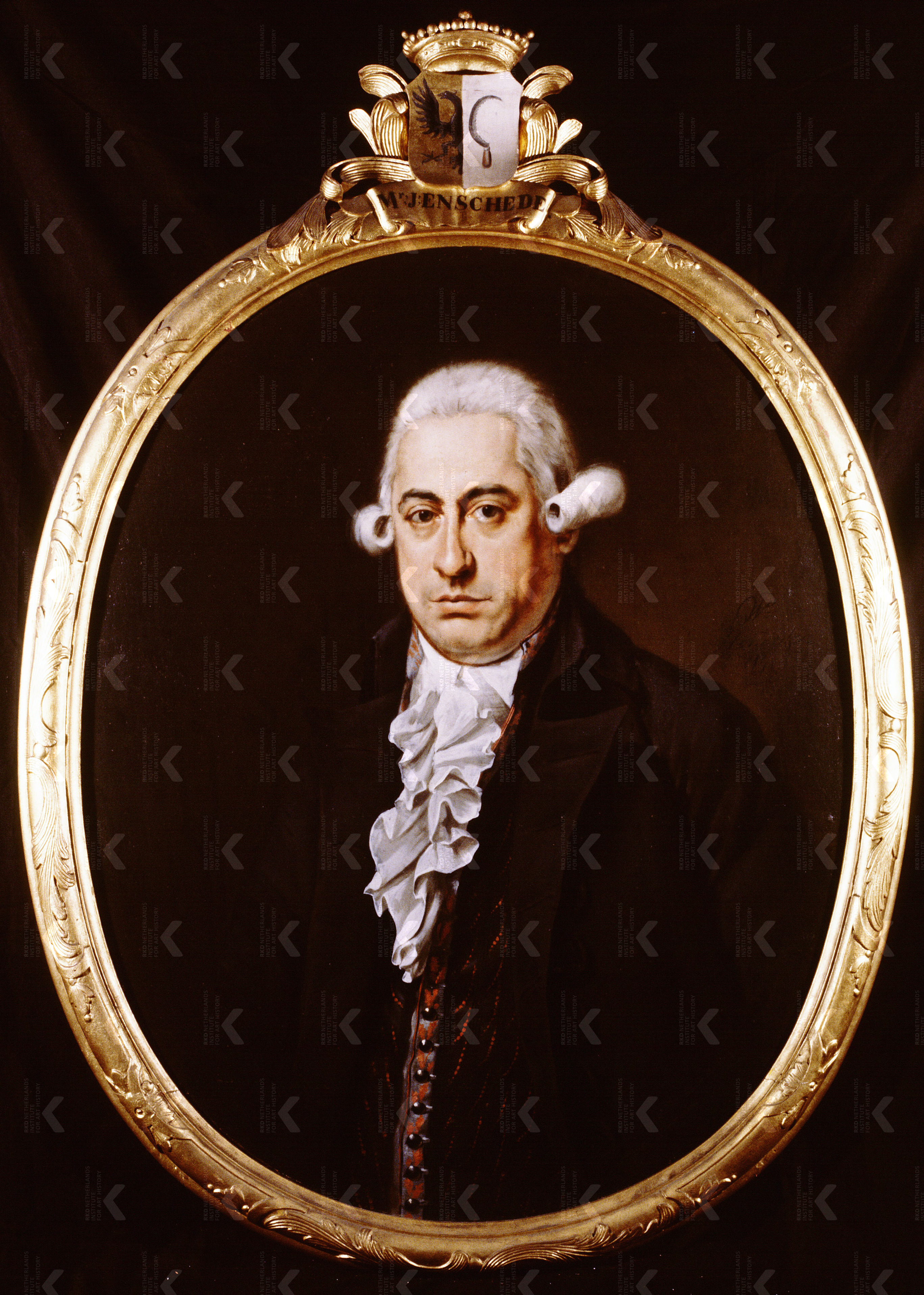 Johannes Enschede (1750-1799)